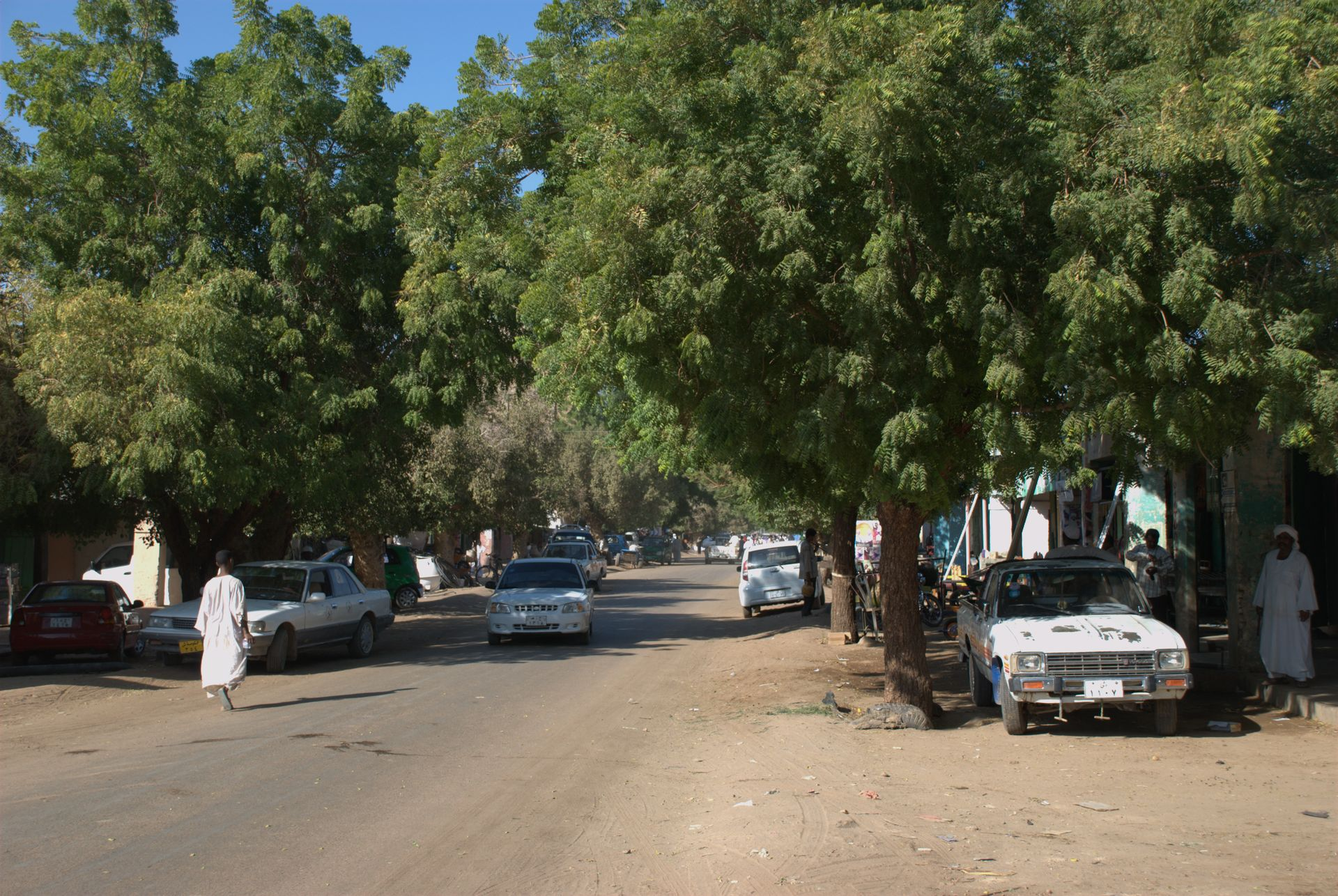 Dongola, Sudan, town center